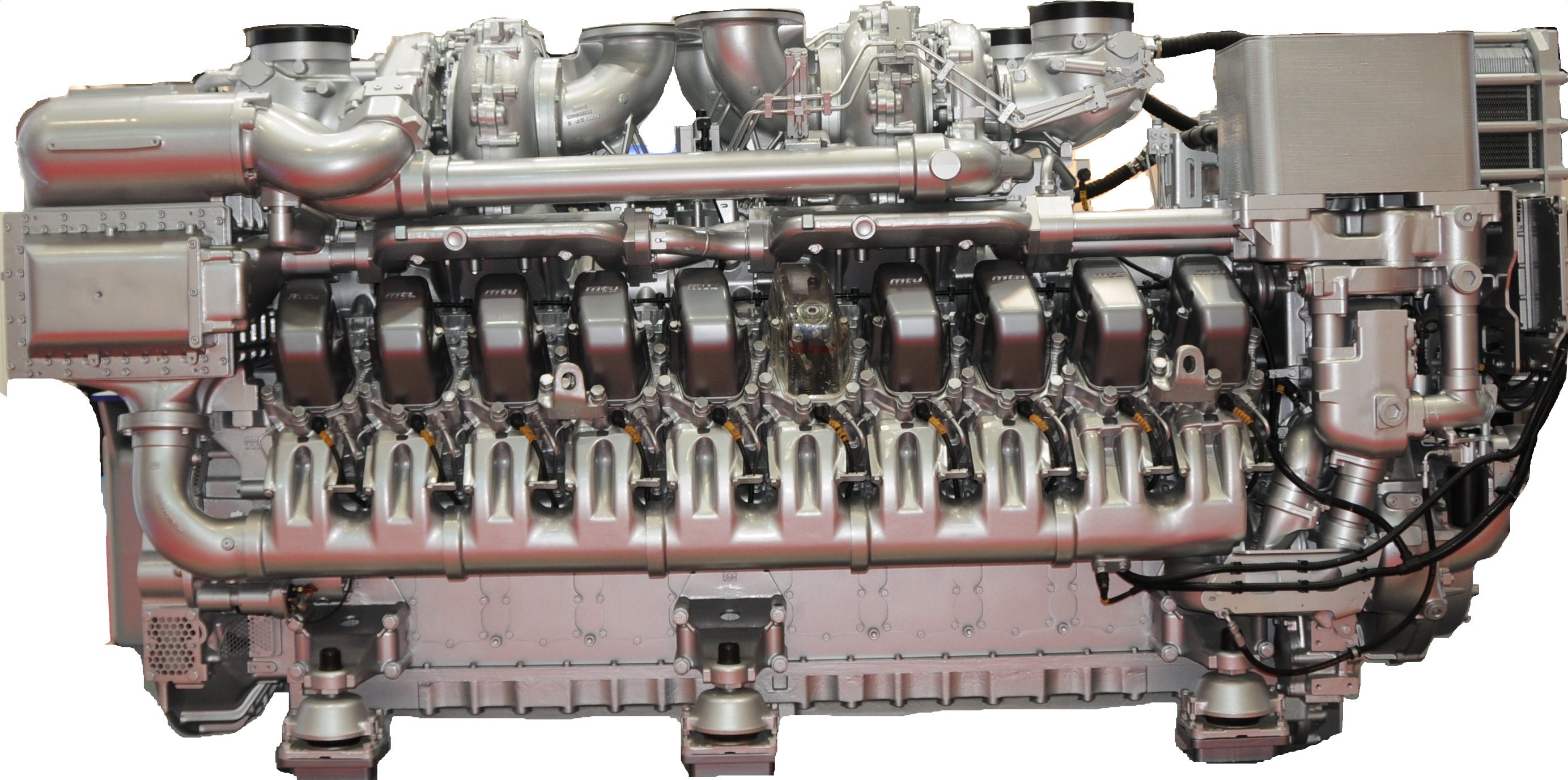 MTU 20V 4000